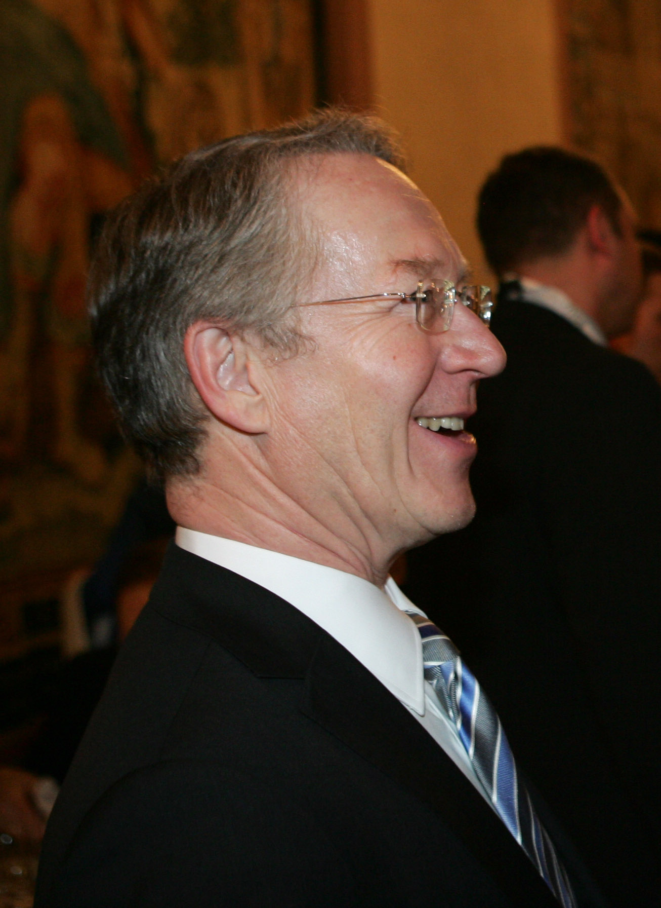 47th Munich Security Conference 2011: Werner Schnappauf (le), Bavarian State Minister (ret.), for the Environment, Health and Consumer Protection and Horst Seehofer (re), Prime Minister of the Free State of Bavaria.